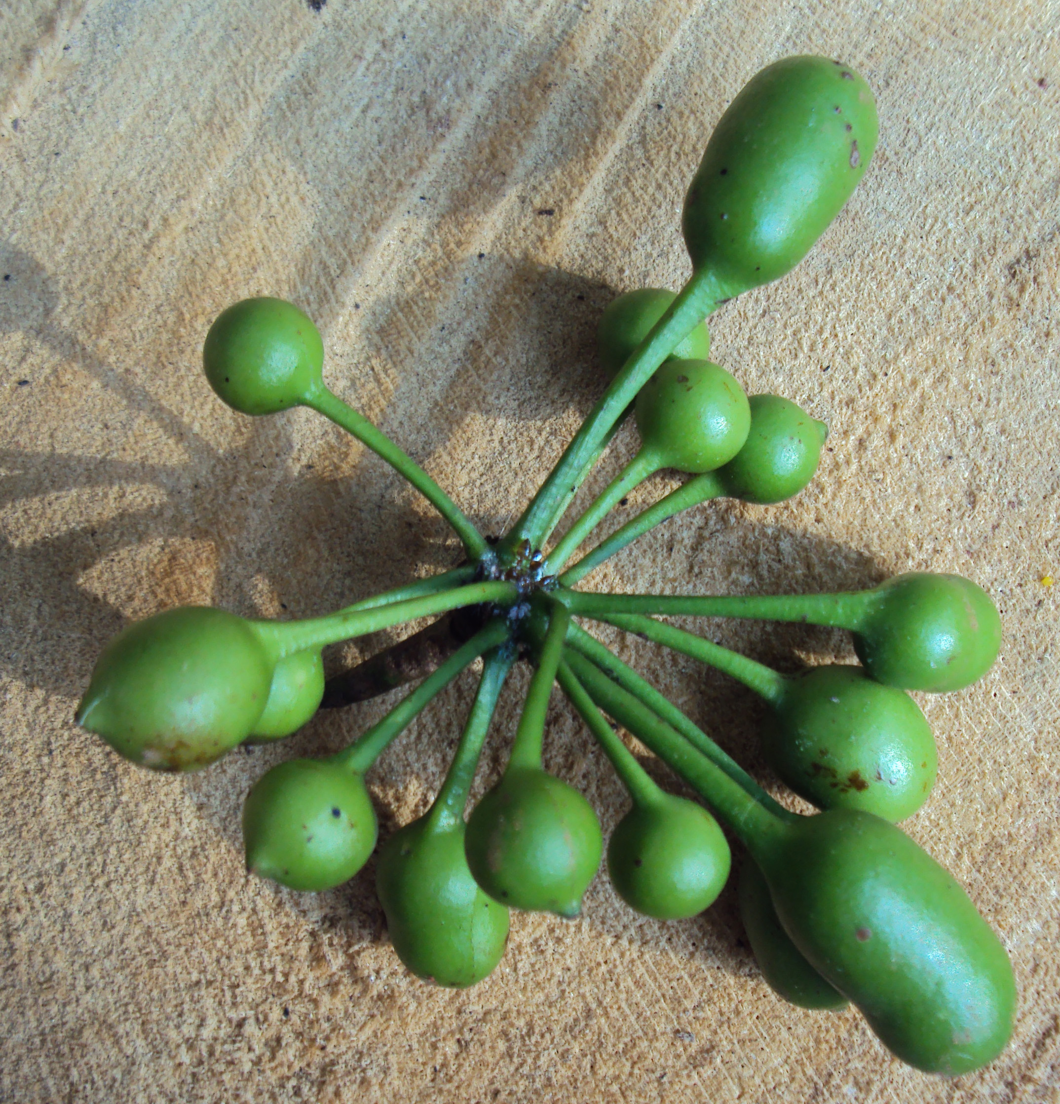 Uvaria narum